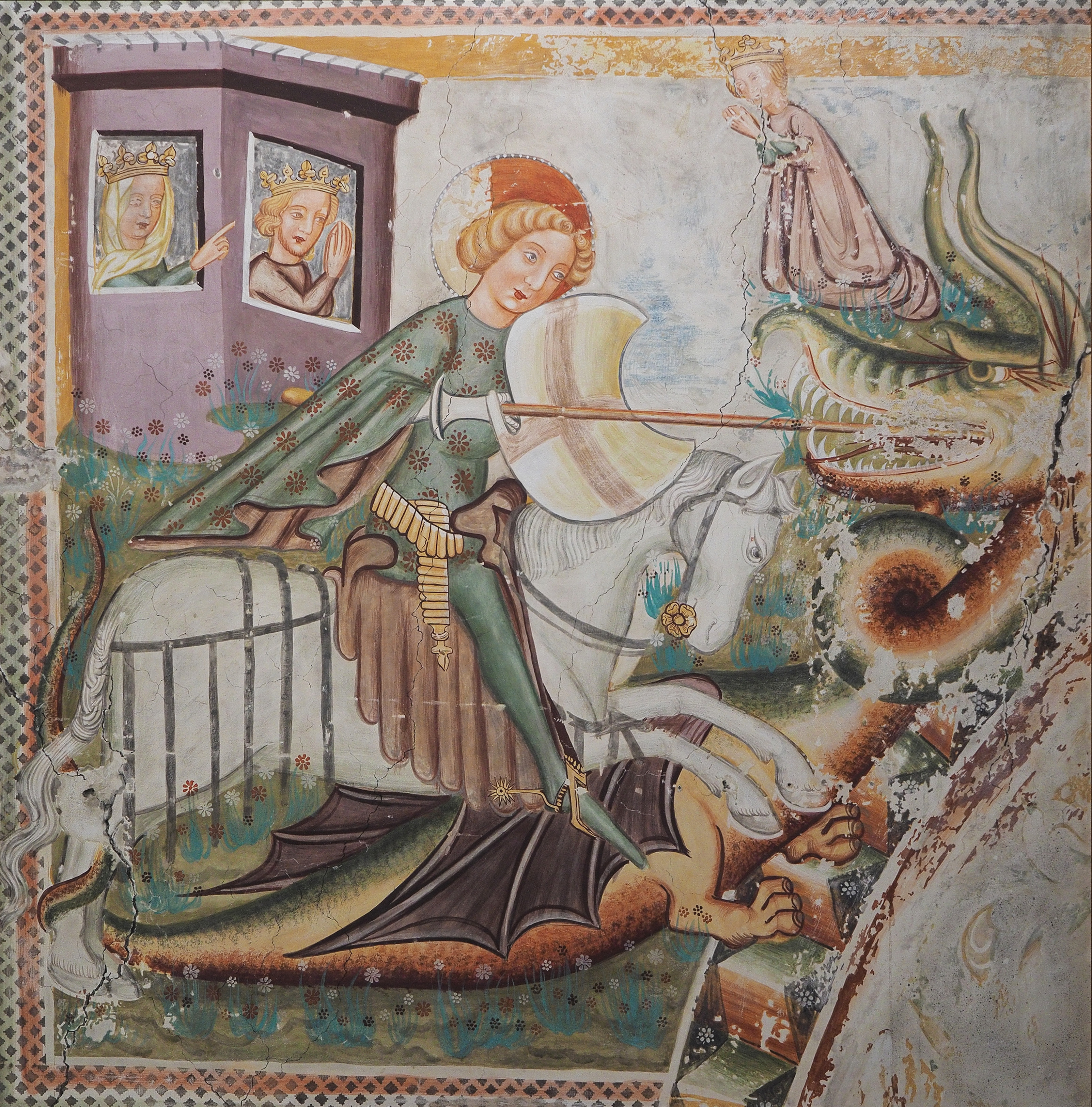 St George Slaying the Dragon, painting workshop from Breg near Preddvor